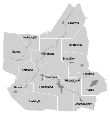 Villages of Pudasjärvi, Finland. Drawn according to information obtained from Pudasjärvi Technical administration.